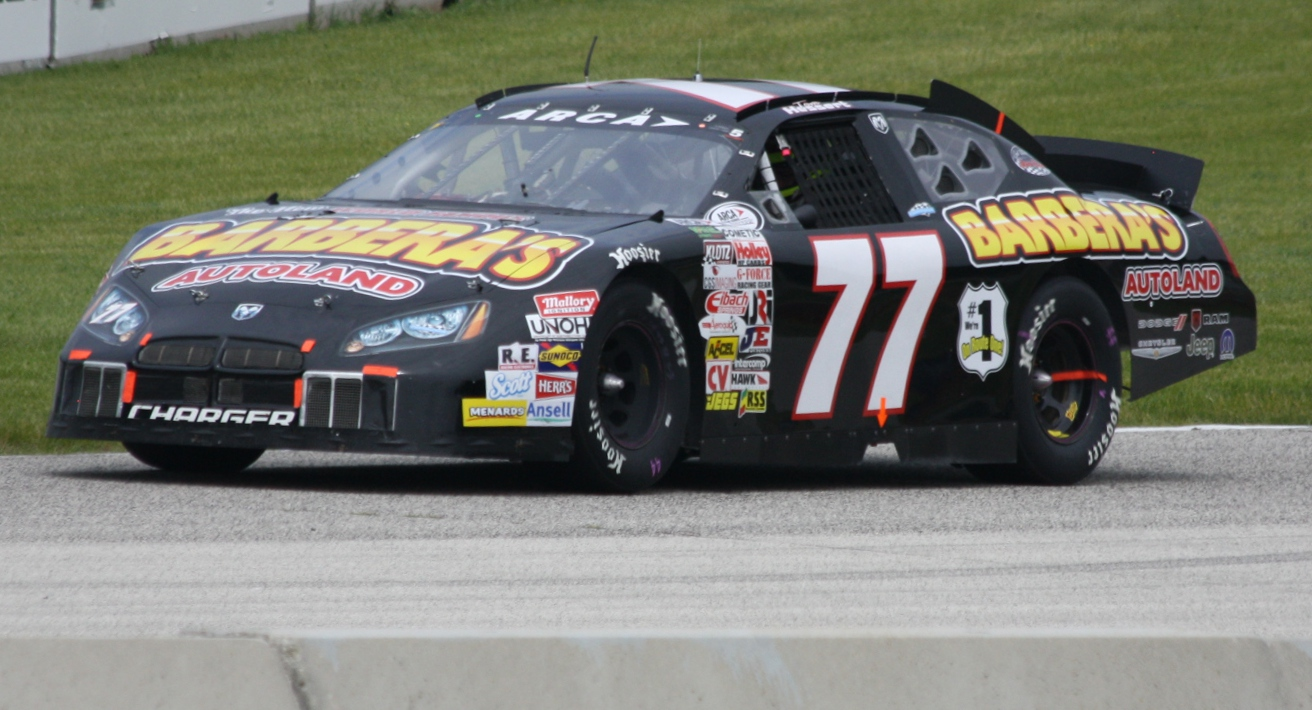 Tom Hessert III #77 ARCA stock car at Road America in 2013.